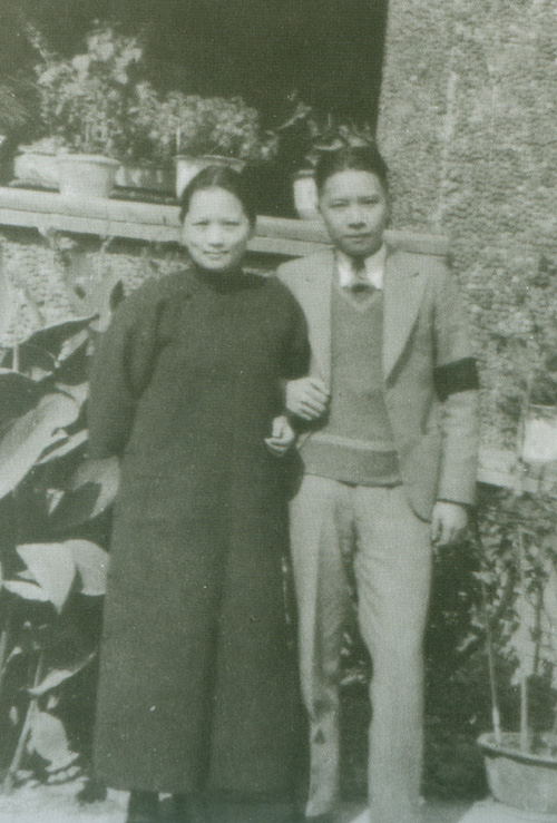 Soong Ching-ling and her brother Soong Tse-liang